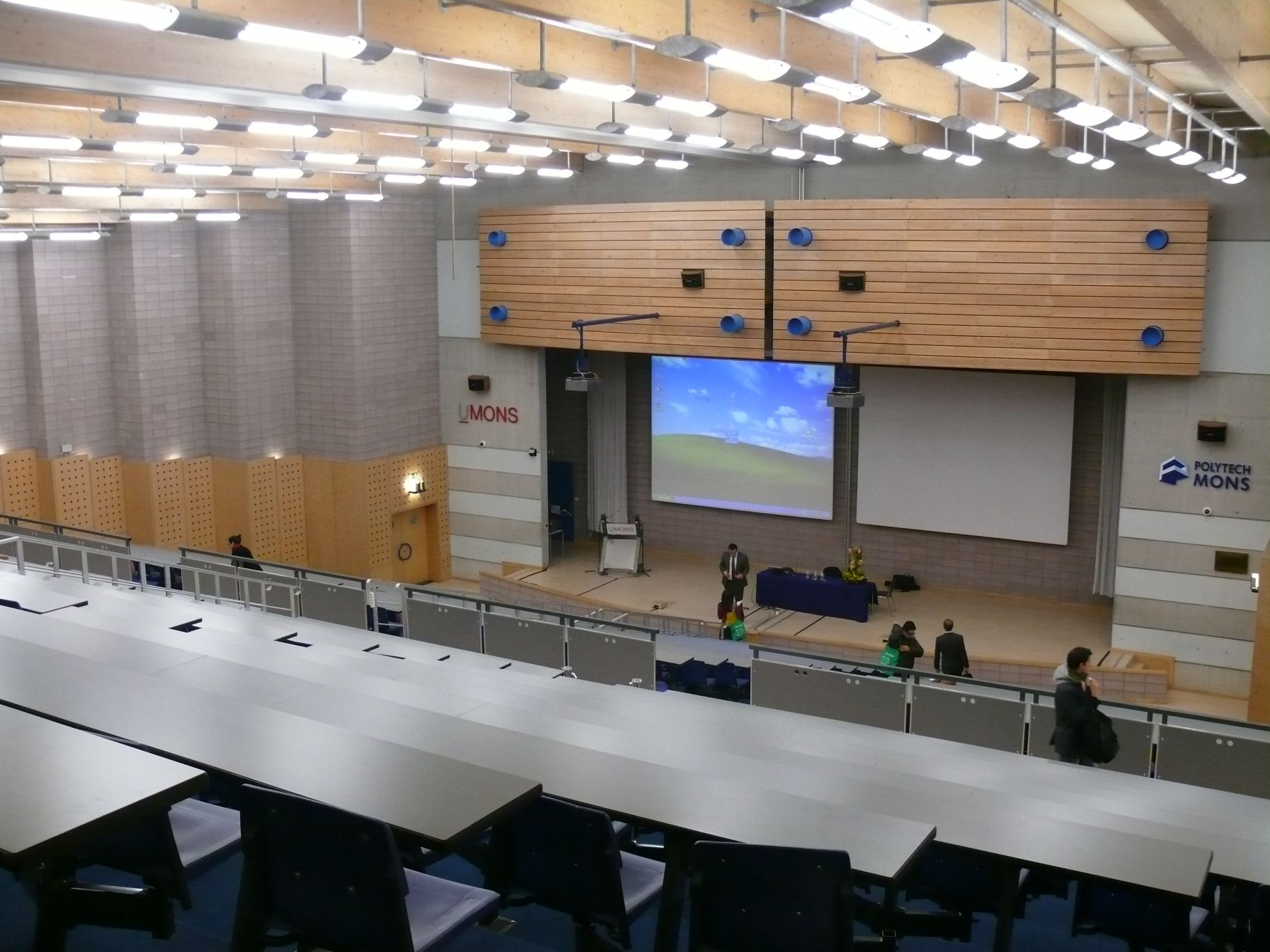 Amphitheatre of the Faculté polytechnique of Mons (Belgique).